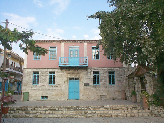 Outside View, image from the Folklore Museum, Afytos, Central Macedonia, Greece